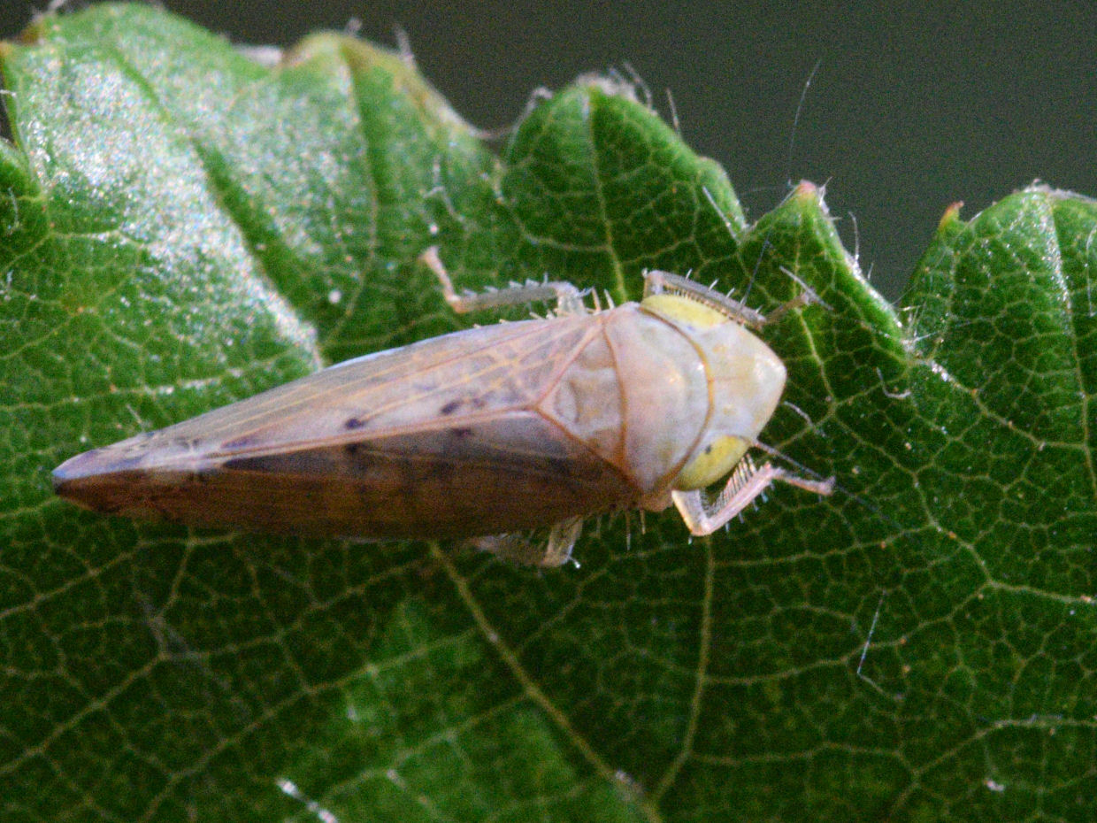 Synophropsis lauri photographed in Adams Road Sanctuary, Cambridge, September 2014.